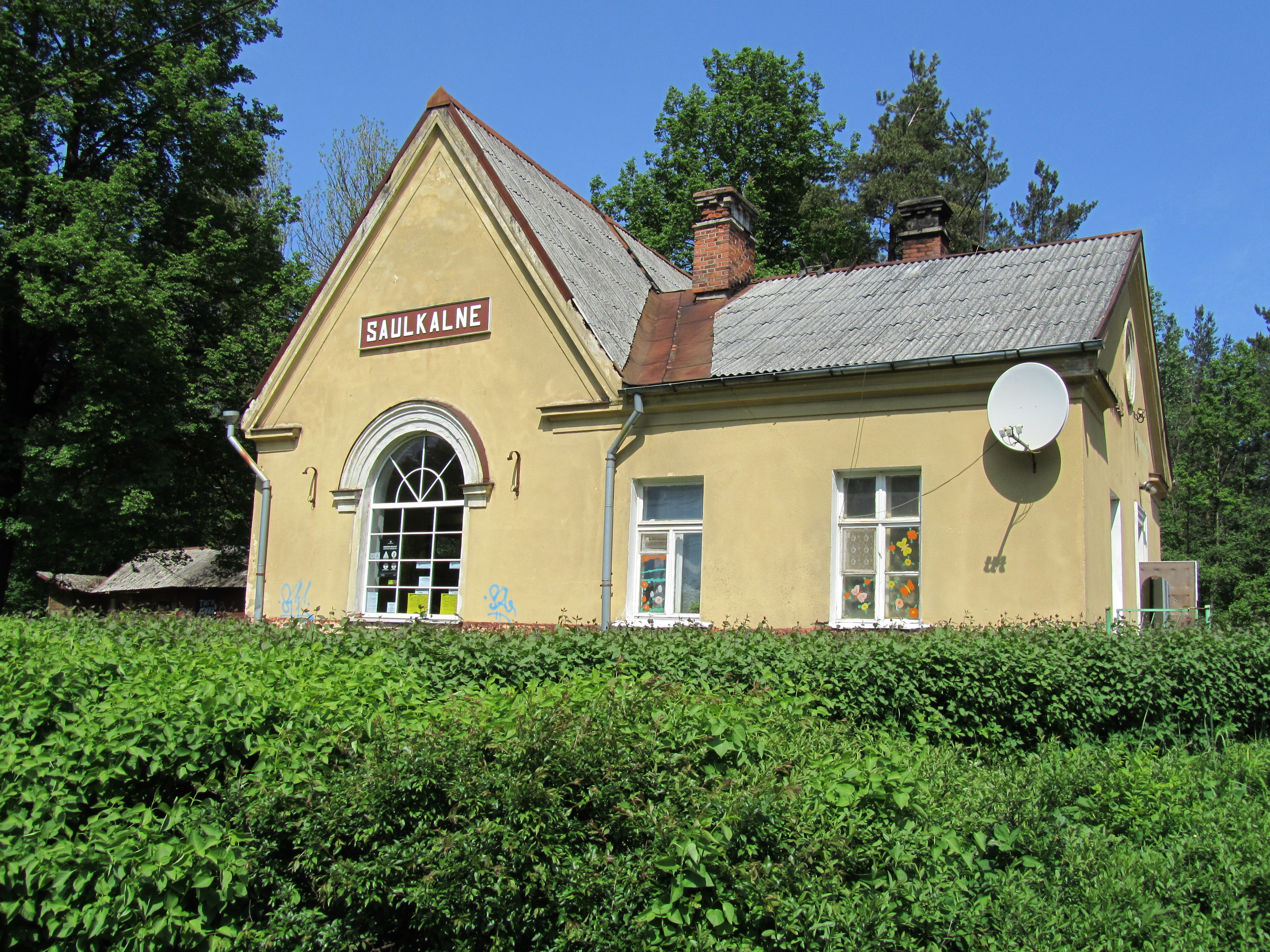 Saulkalne train station (2011)